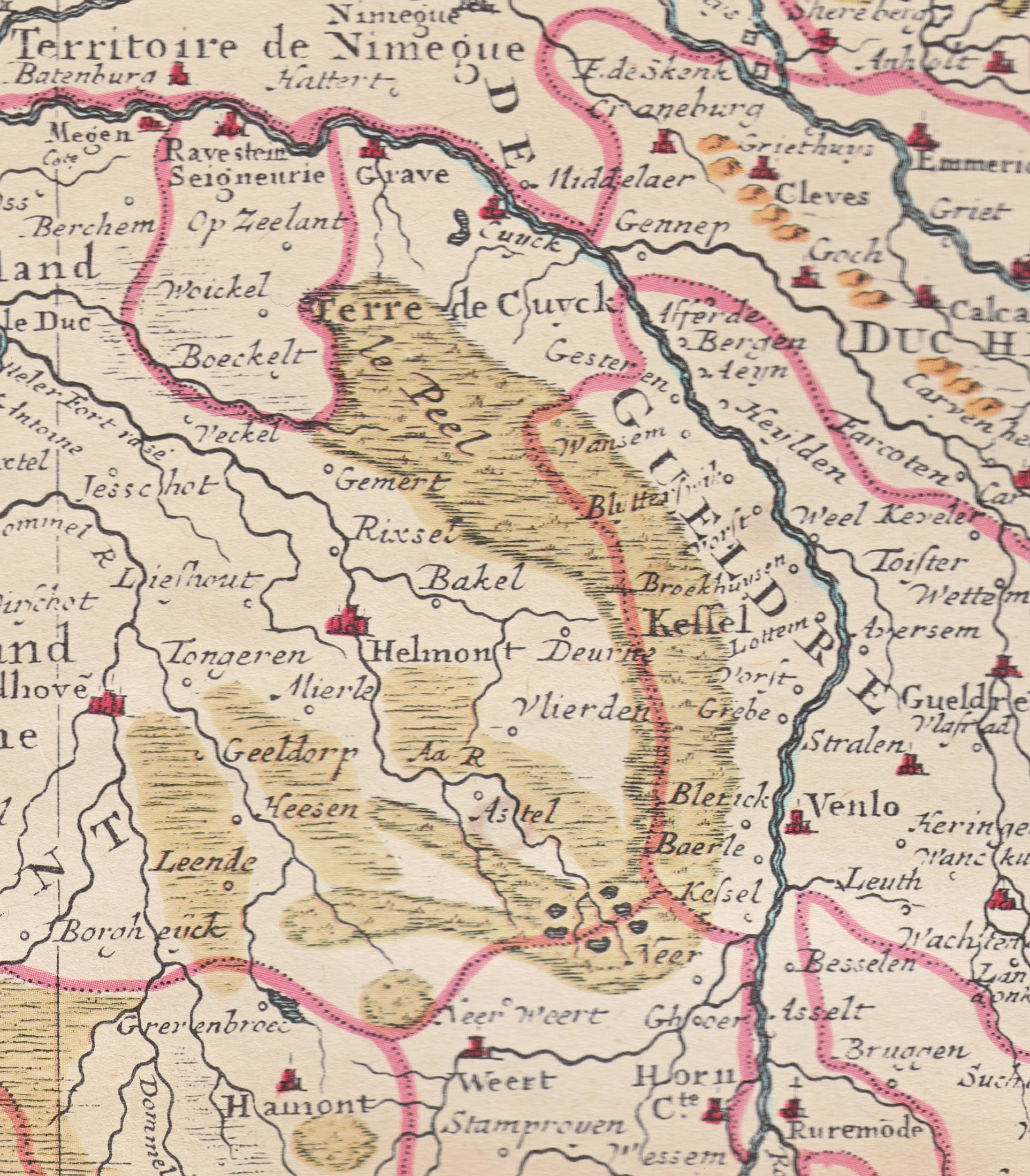 Peel area in The Netherlands, on a map by Guillaume Delisle, publication date circa 1743